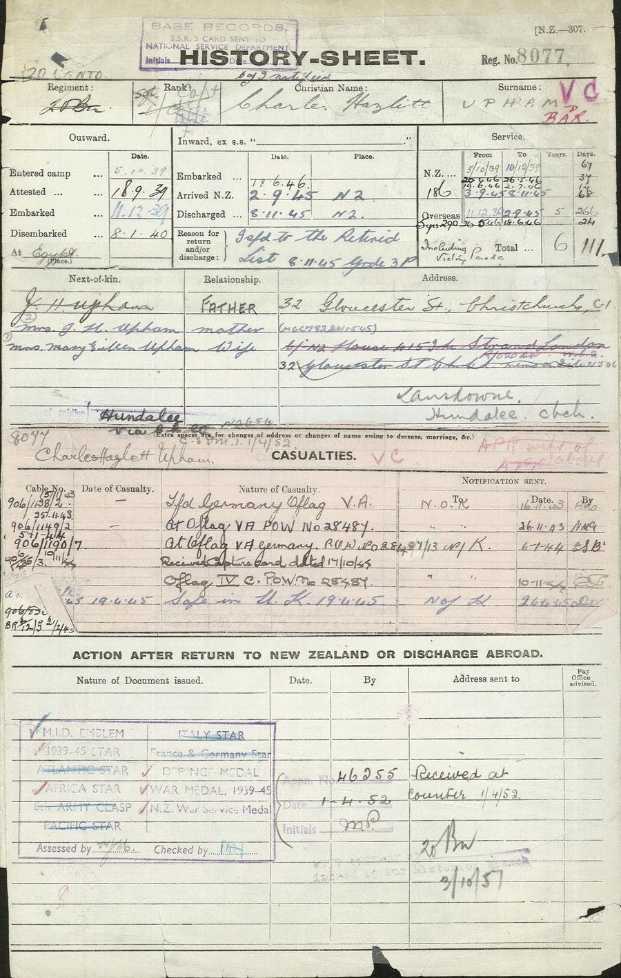 Personnel file (1939 - 1955) of Charles Hazlitt Upham. Served during WWII in the New Zealand Army. Recipient of the Victora Cross (Gallantry Medal). Archives New Zealand Reference: AAAL 18806 W478 3 / D. 202/4086